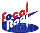 Logo of British commercial radio station Focal Radio.